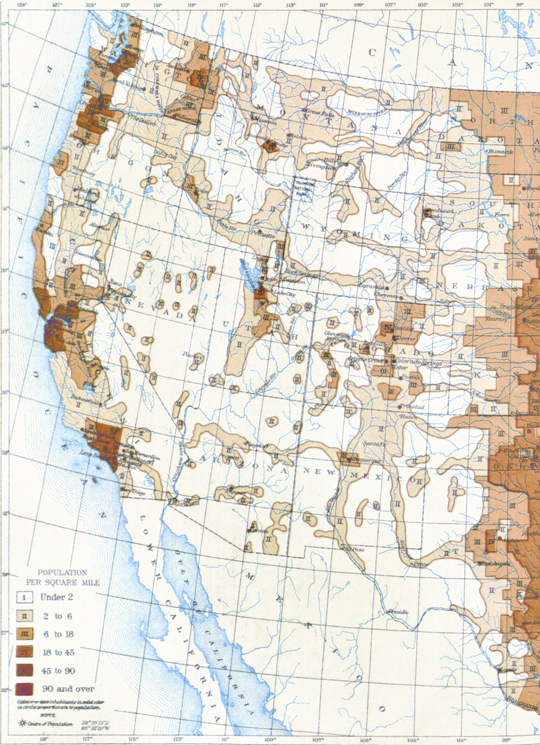 Areas in white have a population density of under 2 per square mile – and thus represent frontier territory[1]. Unlike in the previous census in 1900, the west coast and the east are now connected by inhabited corridors. The frontier line has disappeared. The northern-most corridor follows the path of the Northern Pacific Railway. A second corridor just north of the Great Salt Lake follows mostly the Oregon Trail. To the south, a third, not quite "completed" corridor follows parts of the Atlantic and Pacific Railroad.